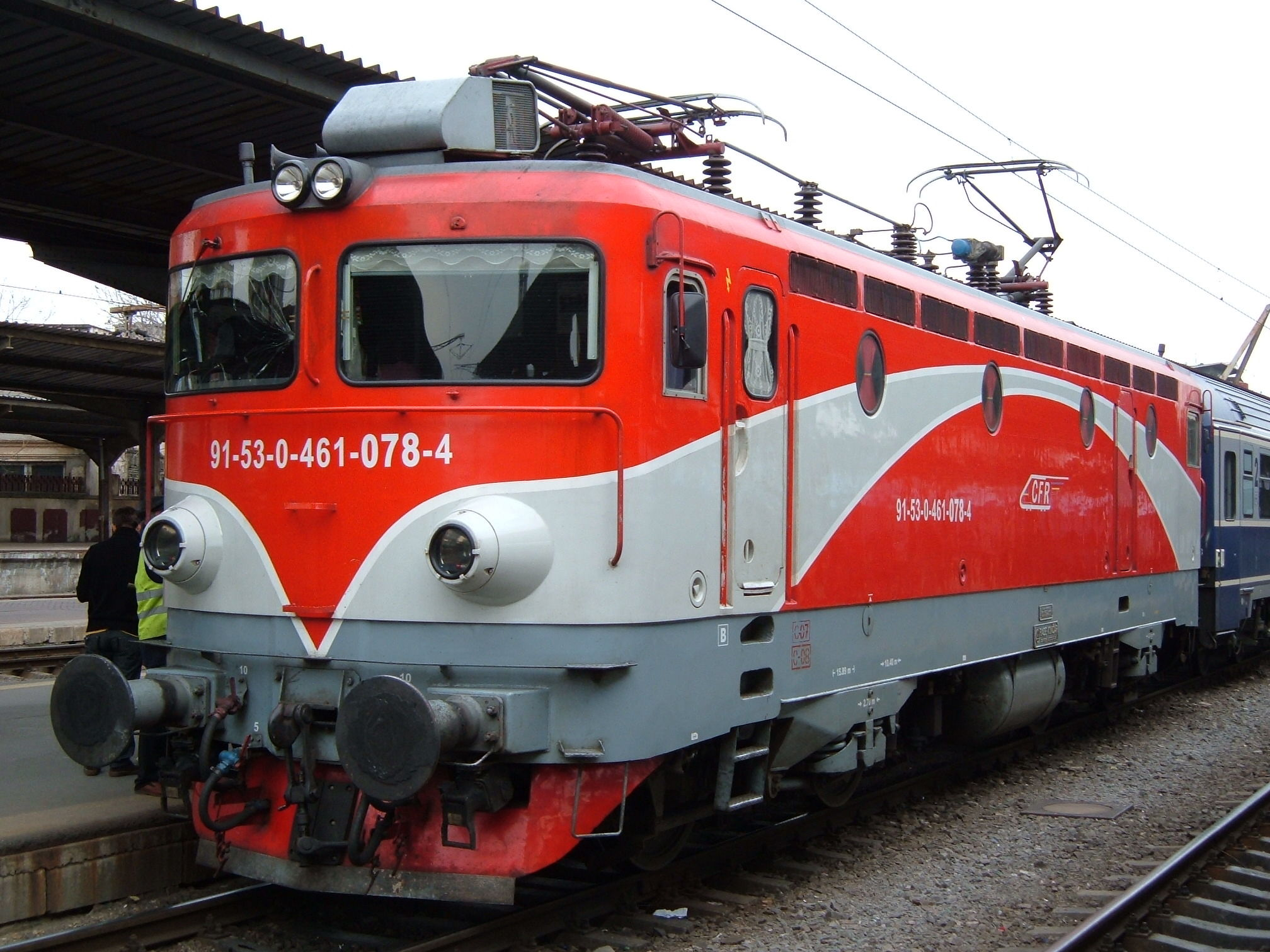 CFR Class 46 locomotive in Bucureşti Nord station. Park number 91-53-0-461-078-4